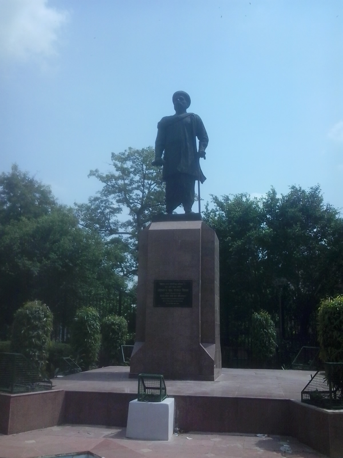 Statue of Bal Gangadhar Tilak in a park of Delhi, beside Supreme Court